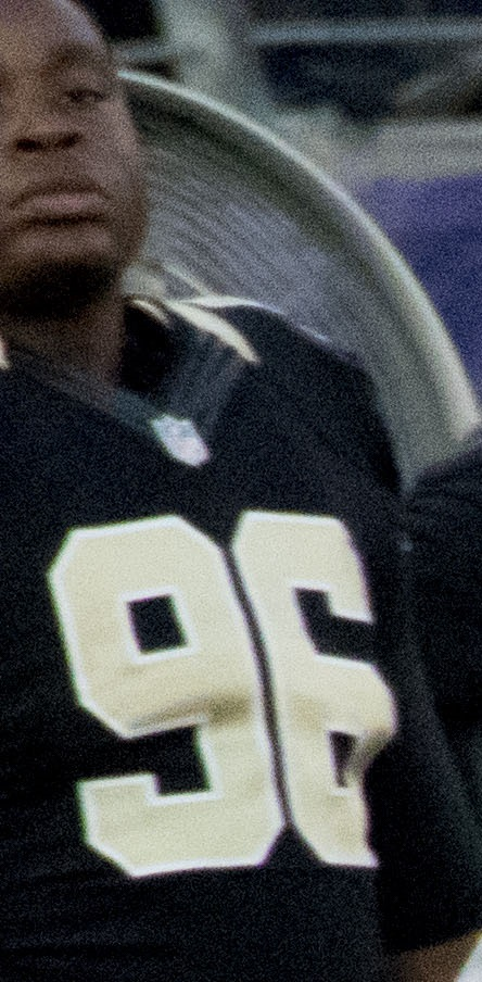 Saints at Ravens 8/13/15